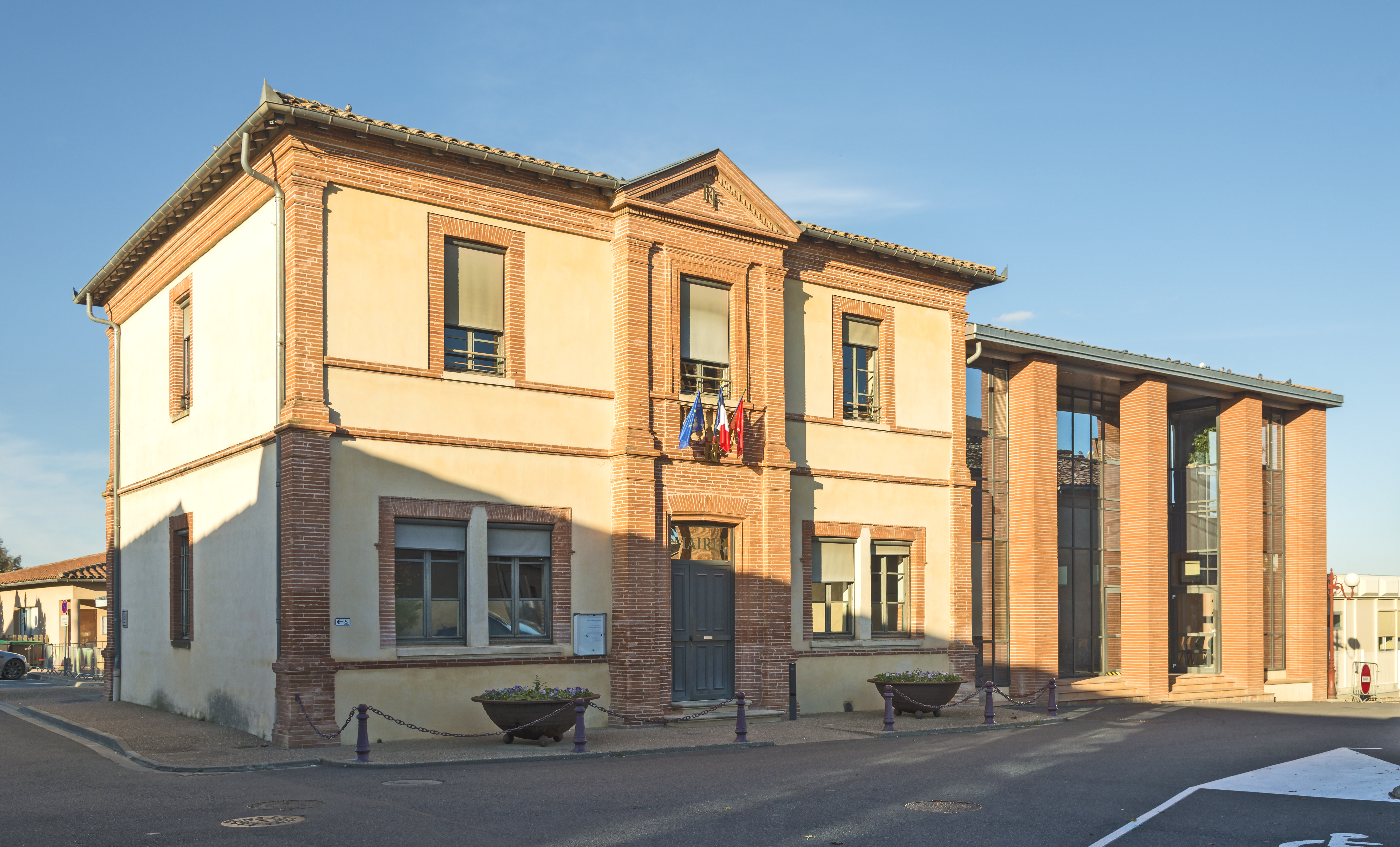 Town halll of Aussonne, Haute-Garonne France.